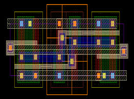 Layout for the layers schematic for the silicon implementation of a six transistor SRAM memory cell.